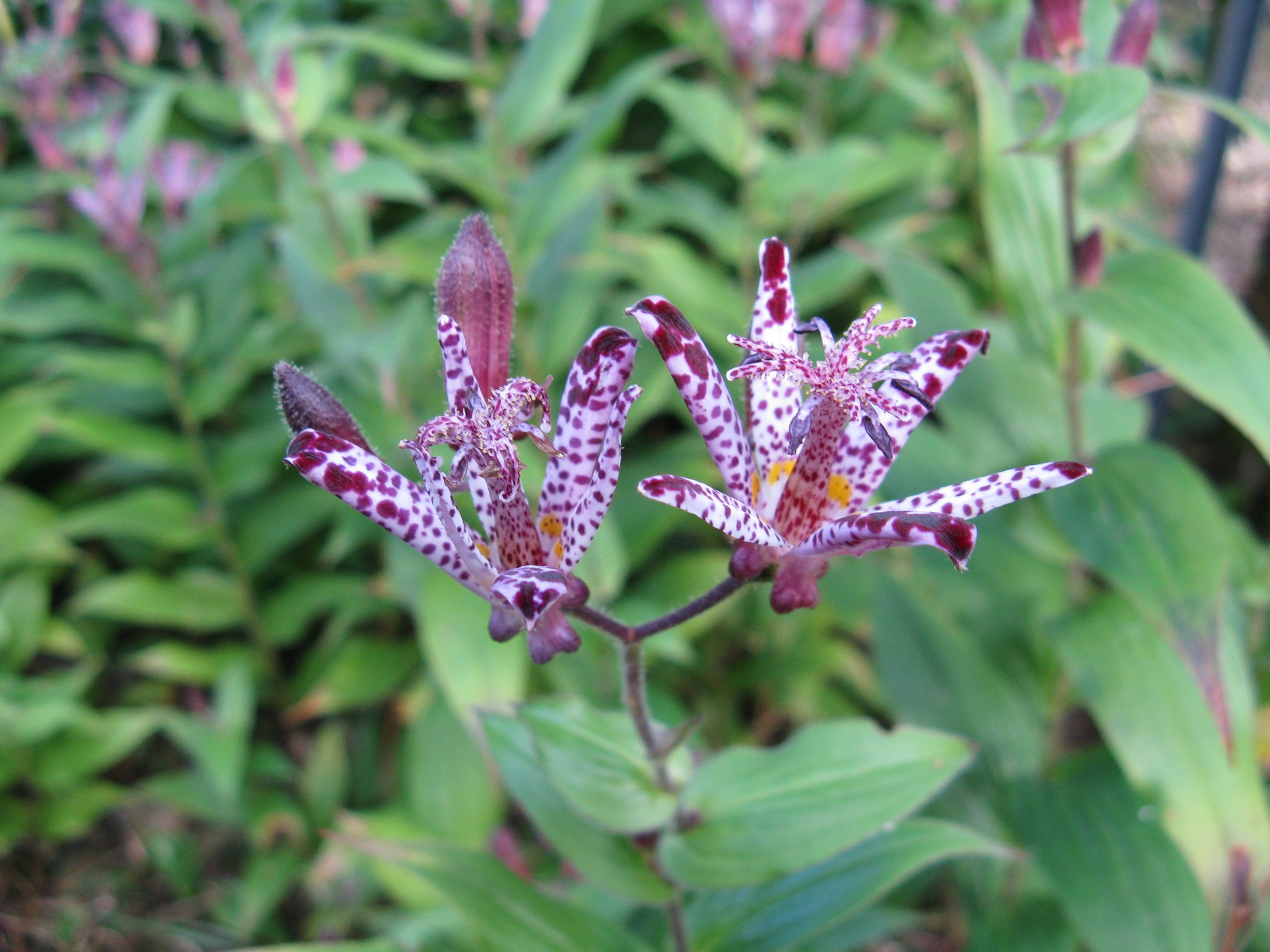 Tricyrtis 'Sinonome' (T.formosana × T. hirta)